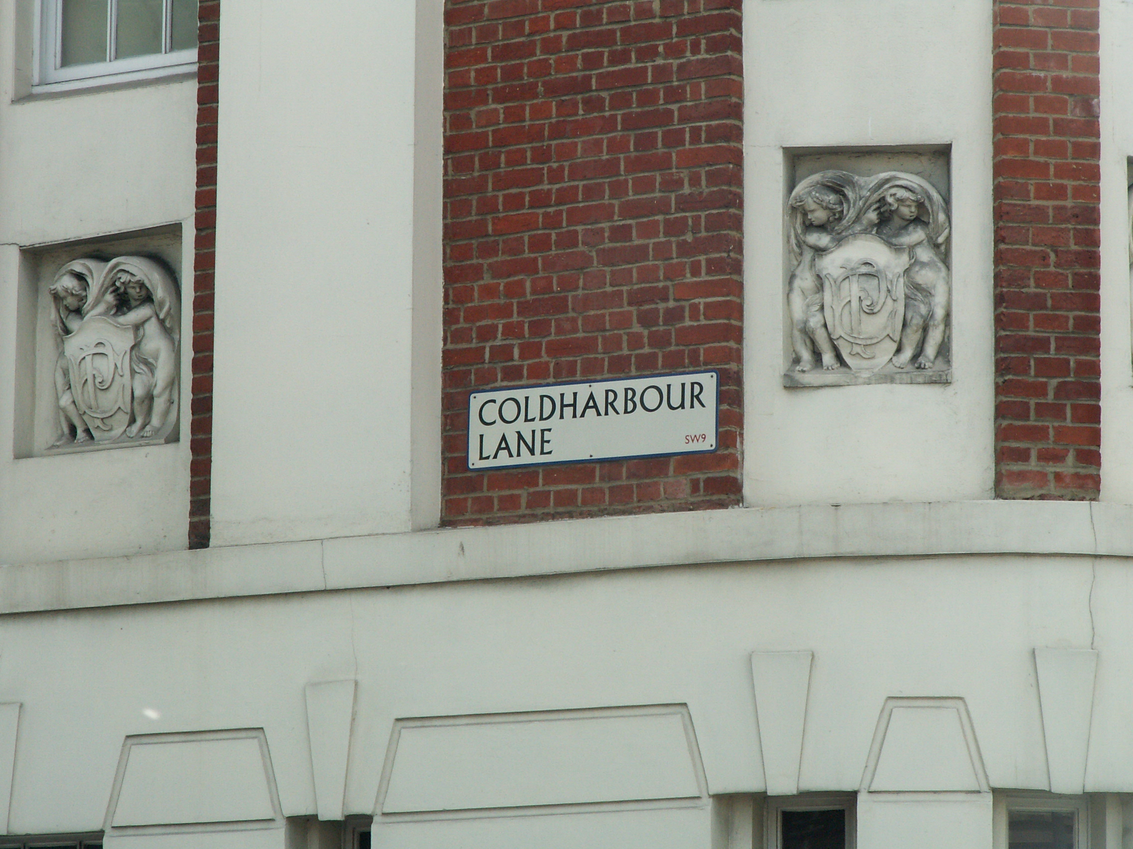 Coldharbour Lane, Brixton, London